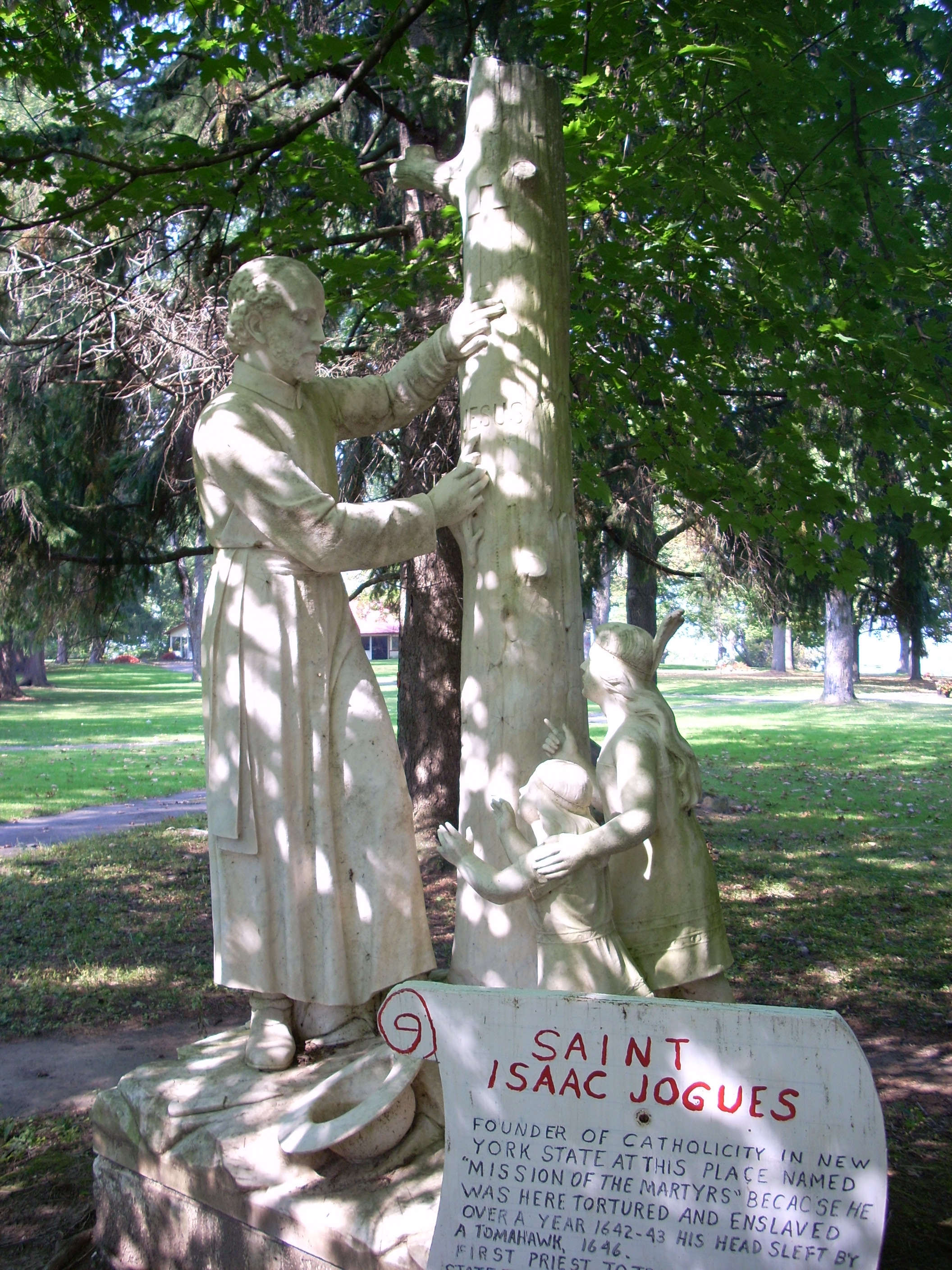 Statue of Saint Isaac Jogues, shown teaching two Mohawk Indian children, located on the grounds of the National Shrine of the North American Martyrs in Auriesville, New York, USA.